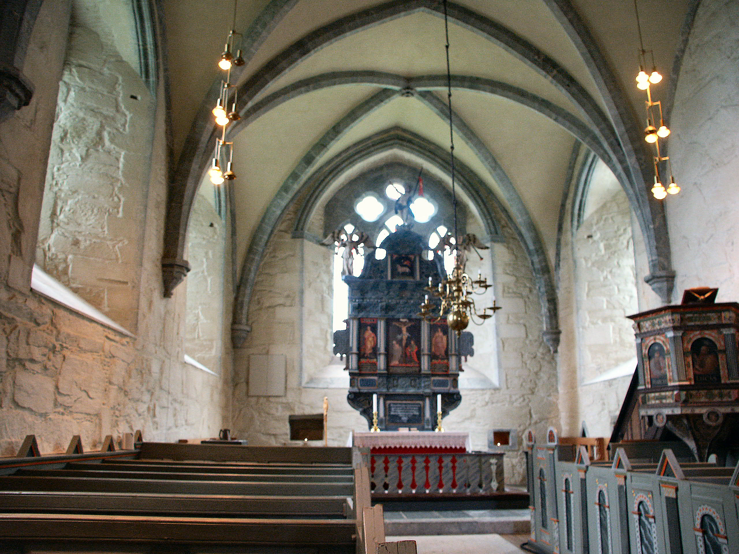 Church, interior, Utstein monastery, Klosterøya, Rennesøy municipality, Rogaland county, Norway Photo: Frode Inge Helland 2006